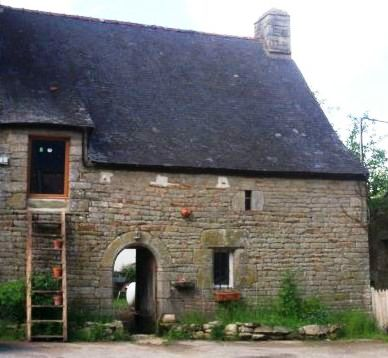 Old house in Lizio 1.